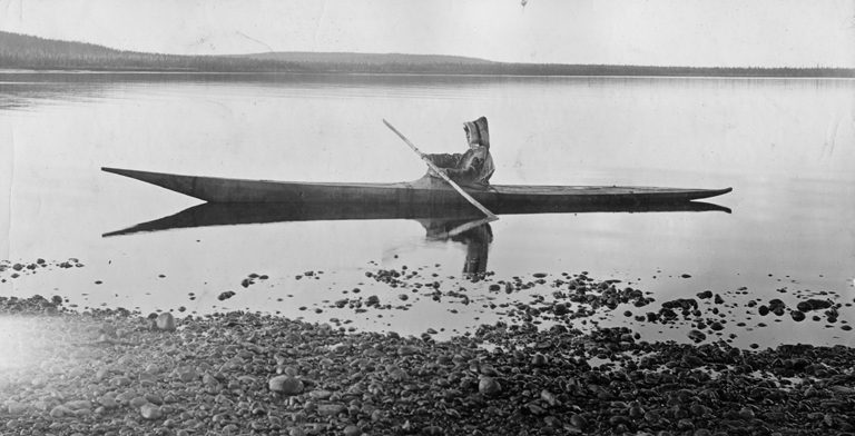 M2000.113.6.223 Mrs. Cotter kayaking on the North West River, Hamilton Inlet, Labrador, NL, 1909 Hugh A. Peck 1909, 20th century Notman photographic Archives - McCord Museum M2000.113.6.223 Mme Cotter en kayak sur la rivière du Nord-Ouest, Hamilton Inlet, Labrador, T.-N-L., 1909 Hugh A. Peck 1909, 20e siècle Archives photographiques Notman - Musée McCord To see the image file on the McCord Museum website, click on the following link: Pour voir la fiche descriptive de cette photographie sur le site Web du Musée McCord, cliquer le lien suivant